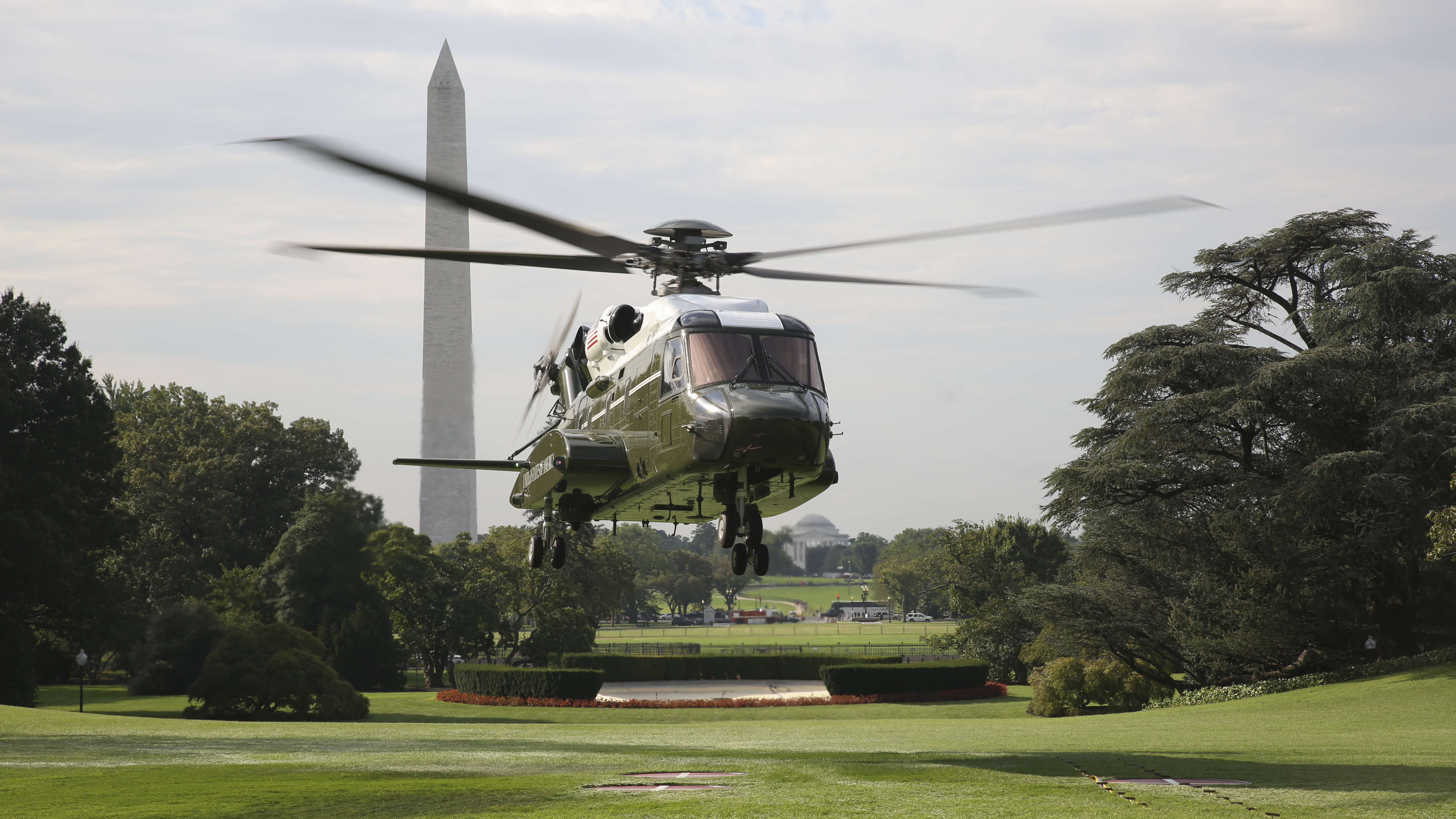 A developmental Sikorsky VH-92A helicopter conducts landing and take-off testing at the White House South Lawn, Washington D.C. (USA), on 22 September 2018. The aircraft was the first of six test aircraft developed under the Engineering and Manufacturing Development (EMD) phase, which included the design, certification and testing of a replacement helicopter to support the presidential world-wide vertical-lift mission. The landing and take-offs were part of a comprehensive test plan designed to ensure the aircraft meets all operational specifications.